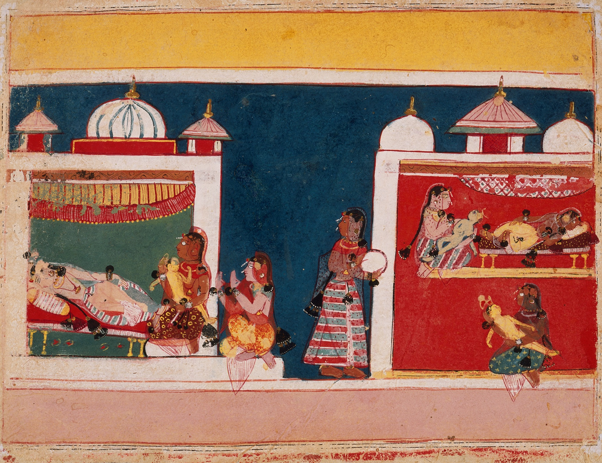 India, Madhya Pradesh, Orchha, 1634-1650 Drawings; watercolors Opaque watercolor and gold on paper Sheet: 7 x 9 1/8 in. (17.78 x 23.18 cm); Image: 4 7/8 x 8 11/16 in. (12.38 x 22.07 cm) From the Nasli and Alice Heeramaneck Collection, Museum Associates Purchase (M.83.105.13) South and Southeast Asian Art